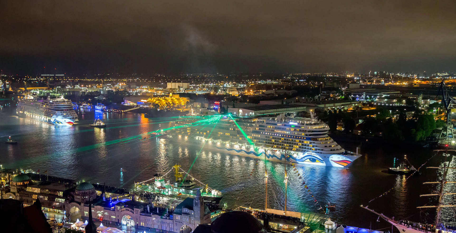 825. Hafengeburtstag Hamburg Foto: AIDACruises/CHLietzmann